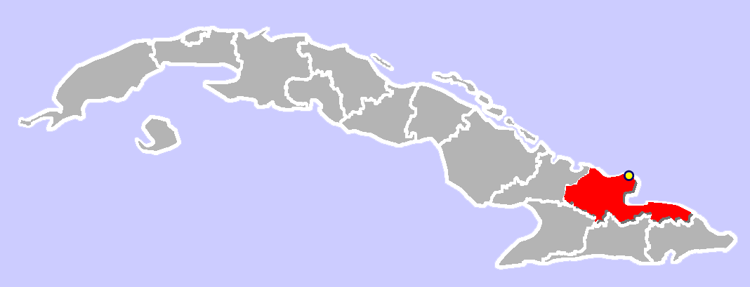 Location of Guardalavaca, Cuba